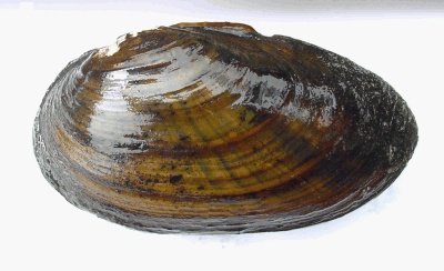 foto: Karel Douda